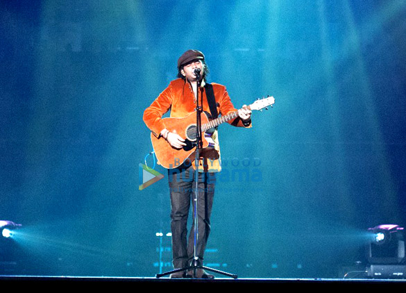 Mohit Chauhan performing at the Times Of India Film Awards 2013 (TOIFA)